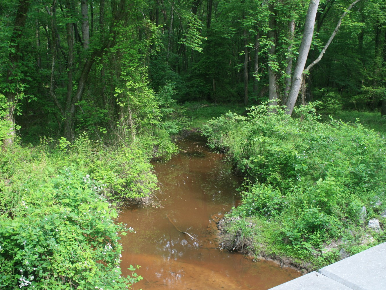 Western Run at Malvern Hill battlefield